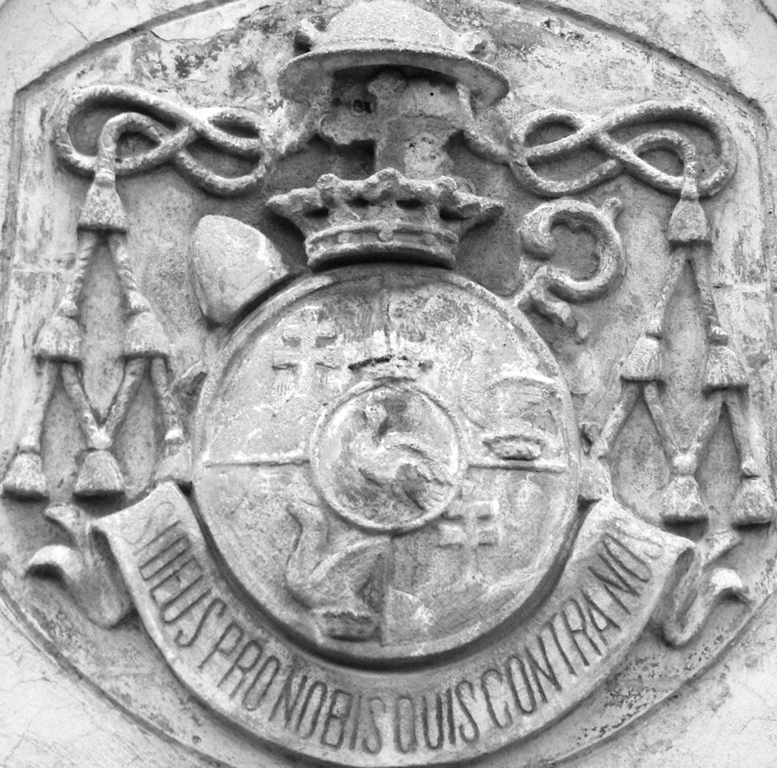 Coat of arms of Miklós Széchényi, bishop of Győr, Hungary (1901 - 1911), bishop of Oradea Mare, Romania (1911 - 1923). Portal of Hittudományi Főiskola (Theological College) in Győr.